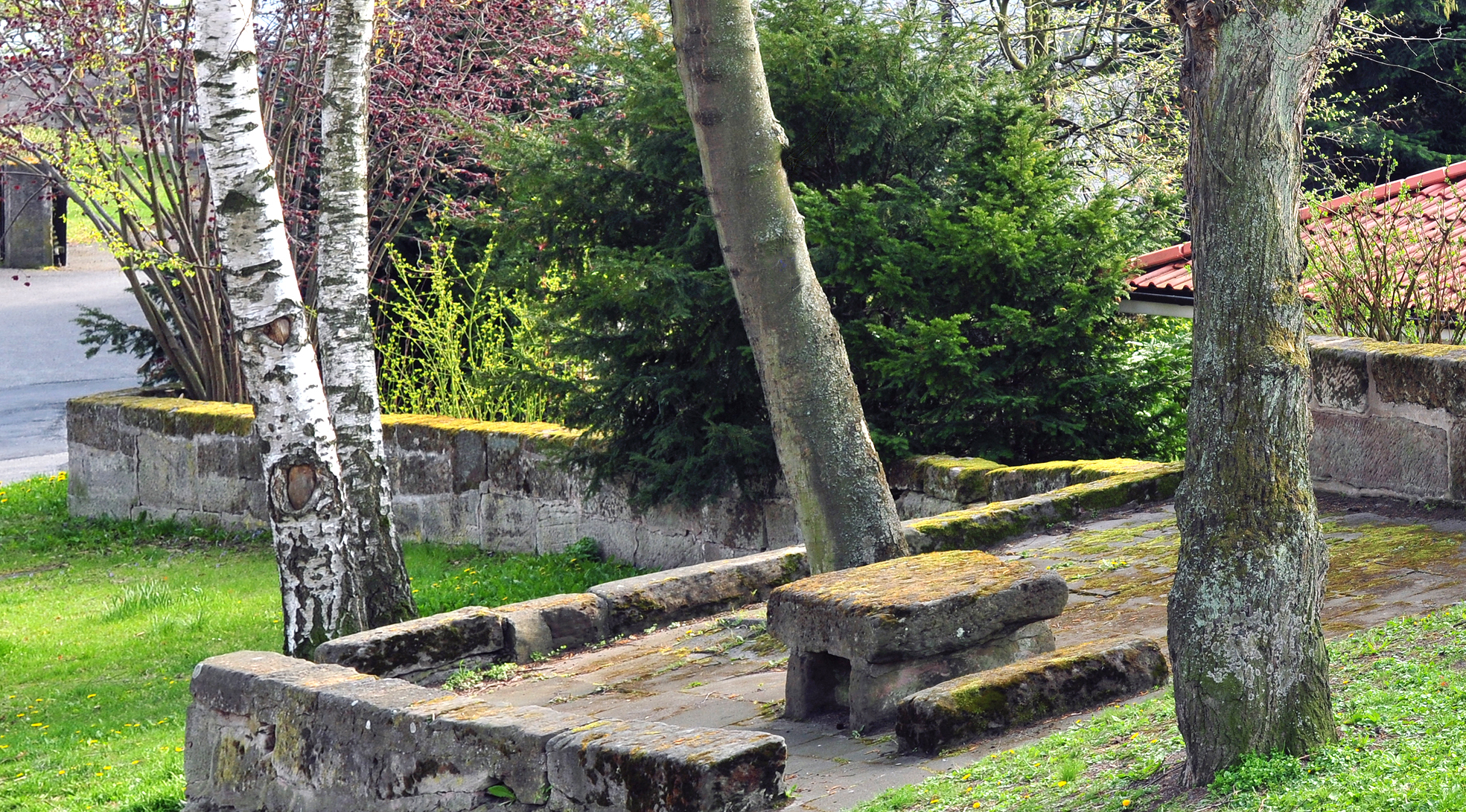 The Tie by Niedernjesa near Göttingen in Lower Saxony, Germany.